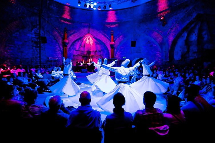 مصرى: Mwald celebrations of the Prophet's family in Egypt is the best tables stretched out and hints from the days of eternity, and celebrates the people of God in Egypt Bmwald the Prophet's family at an annual fixed dates. (احتفالات موالد أهل البيت فى مصر هى موائد خير ممدودة ونفحات من أيام الدهر، ويحتفل أهل الله فى مصر بموالد أهل البيت فى مواعيد سنوية ثابتة (رقص الموالد في مصر مثل مولد السيد البدوي-مولد السيدة زينب This is an image of music and dance from Egypt